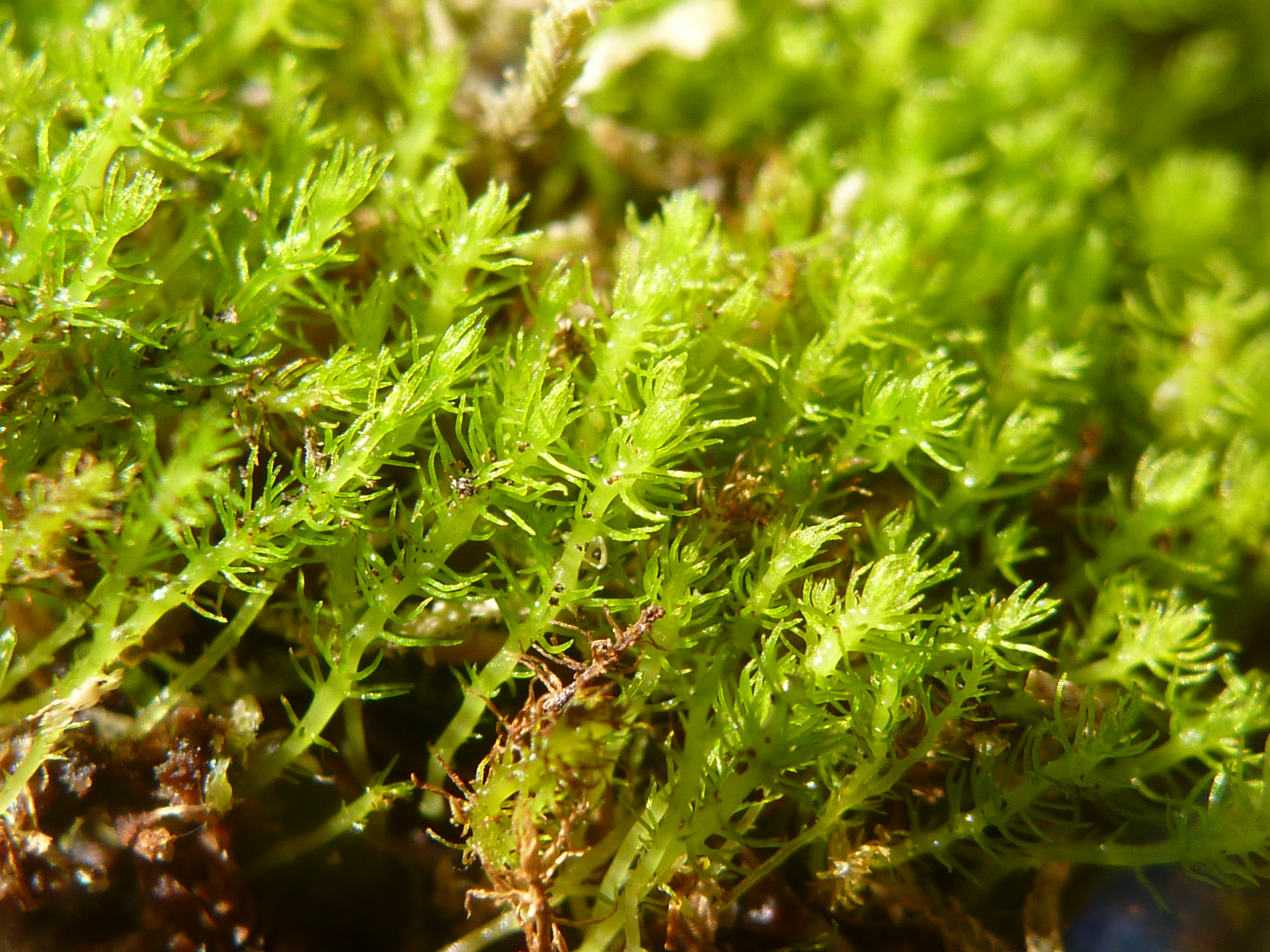 Takakia lepidozioides growing on damp slope above Takakia Lake, Haida Gwaii.